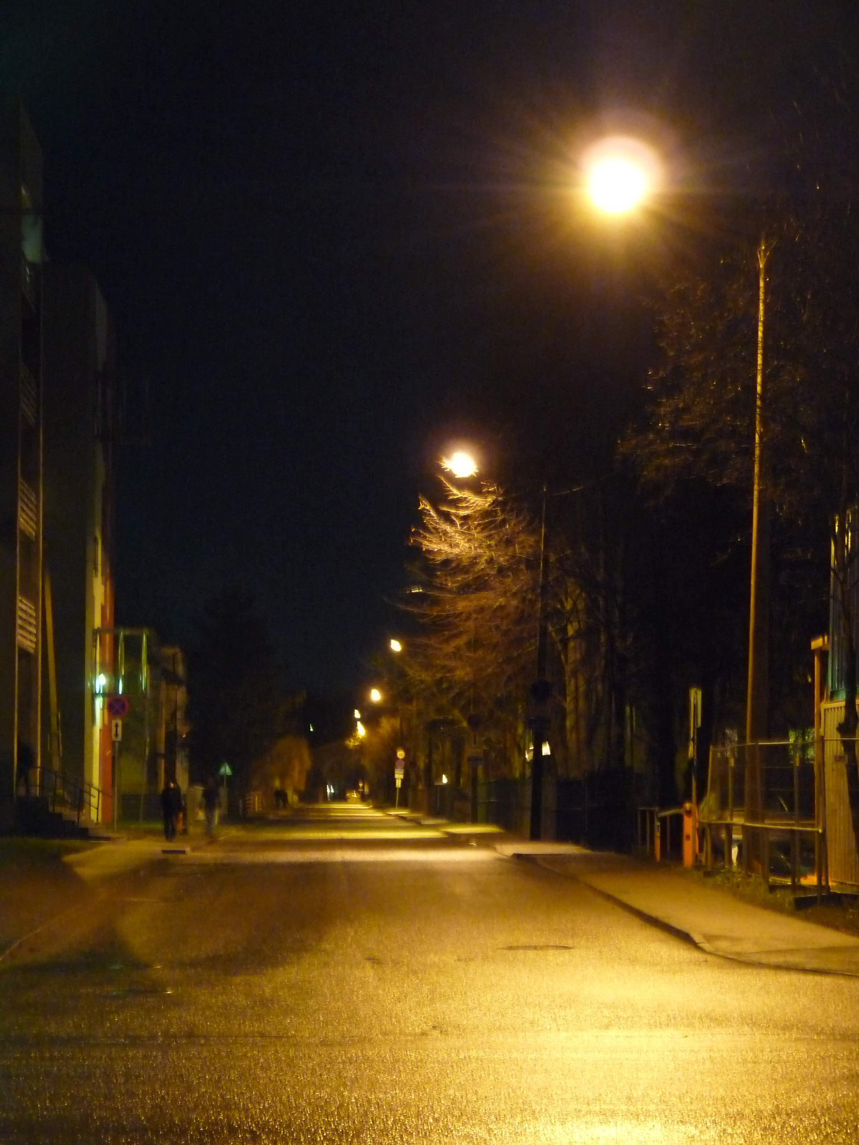 Kaera street in Tallinn, Estonia